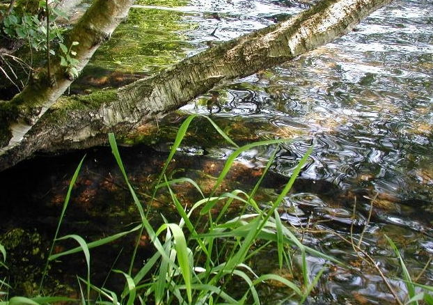 Two habitats meet in this picture: one under the water and on on the bough. This picture shows an ecotone. Salten Langsø, Jutland